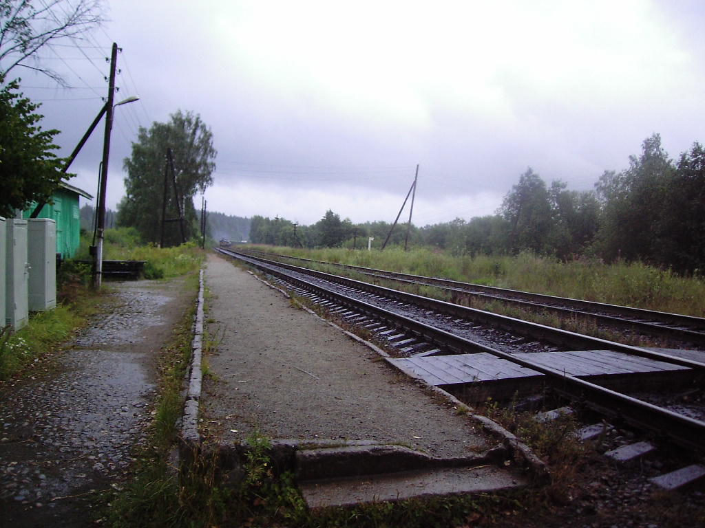 Kuokkaniemi, a station of the Vyborg–Joensuu railroad in the present-day Republic of Karelia